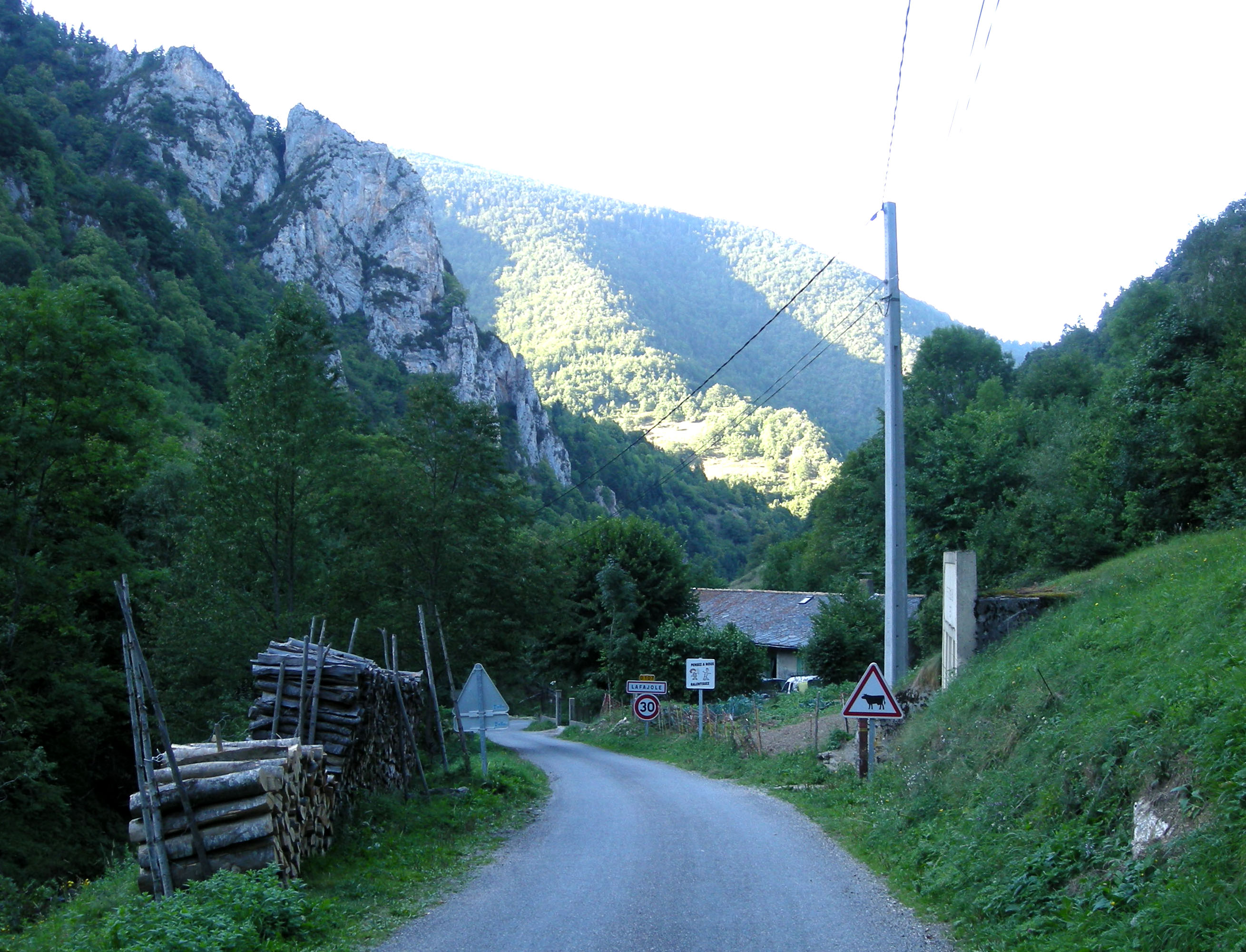 Lafajole (Aude)